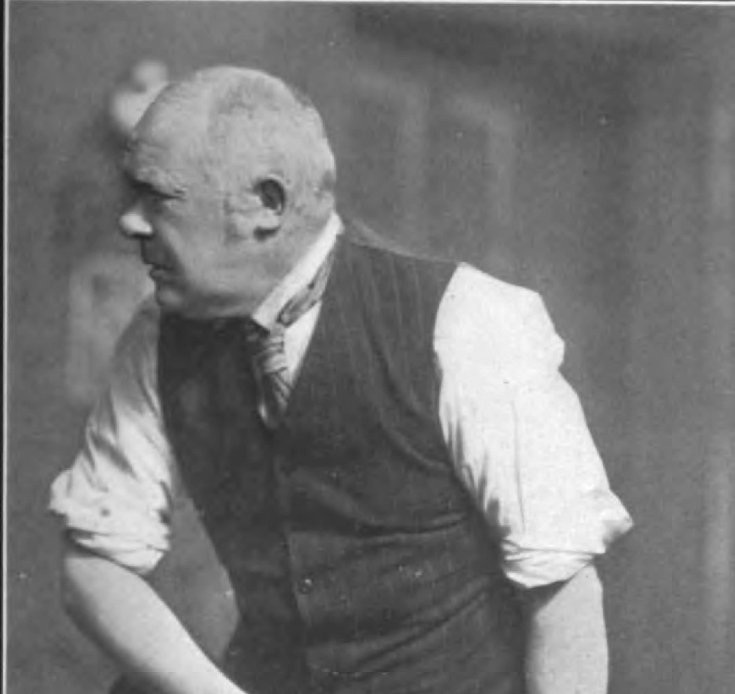 William Hawtrey was an English actor, active on Broadway from 1906 to 1913. Here he is in the play An Englishman's Home.